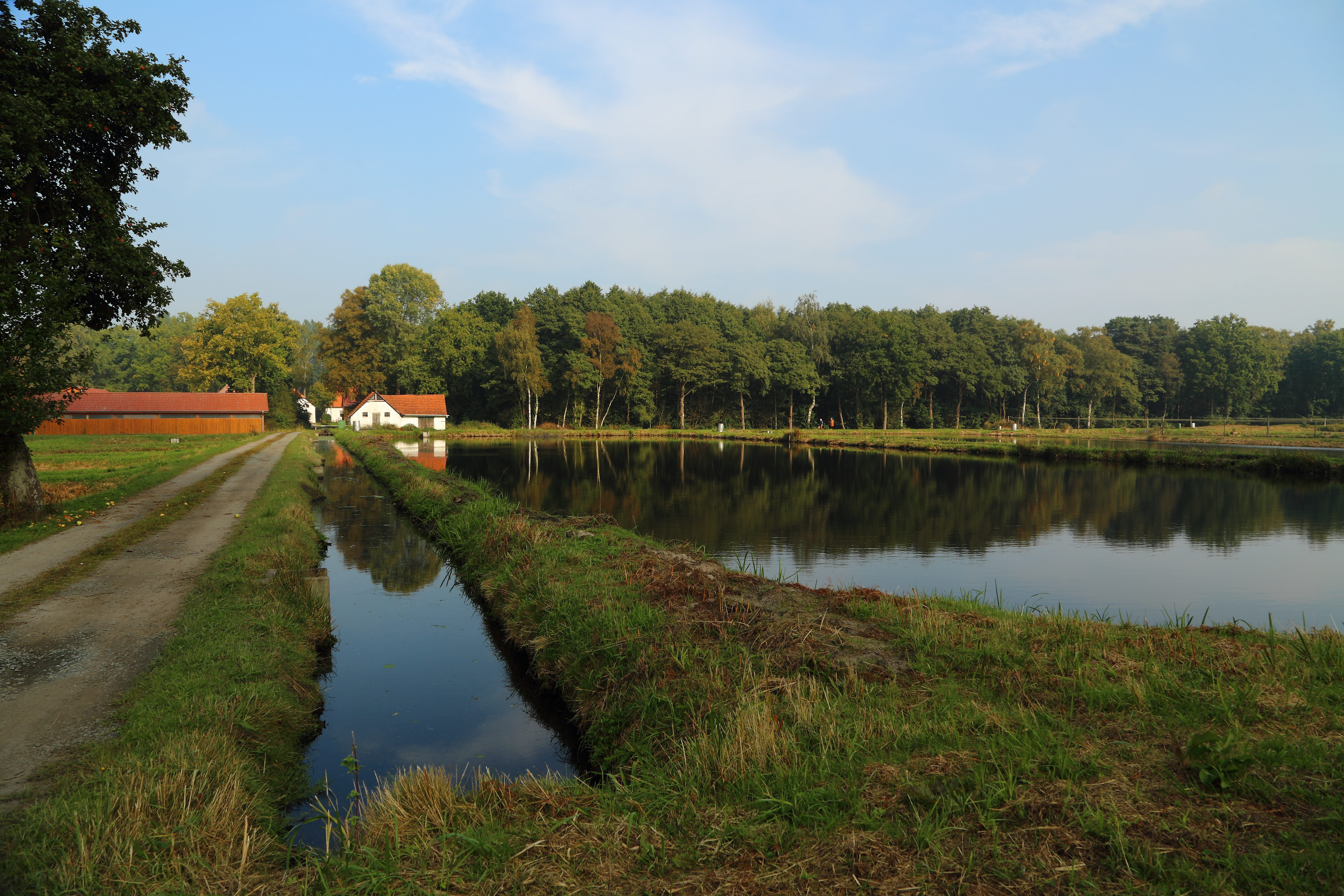 One of the Ahlhorn fish ponds (Ahlhorner Fischteiche) near Emstek, Landkreis Cloppenburg, Lower Saxony, Germany.